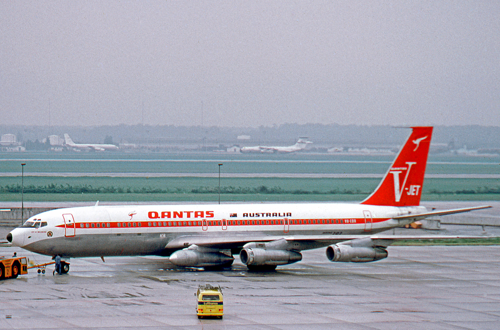 Boeing 707-338C VH-EBR "City of Wollongong" at Frankfurt Main airport in 1972 carrying a spare engine in an inboard under-wing pod.